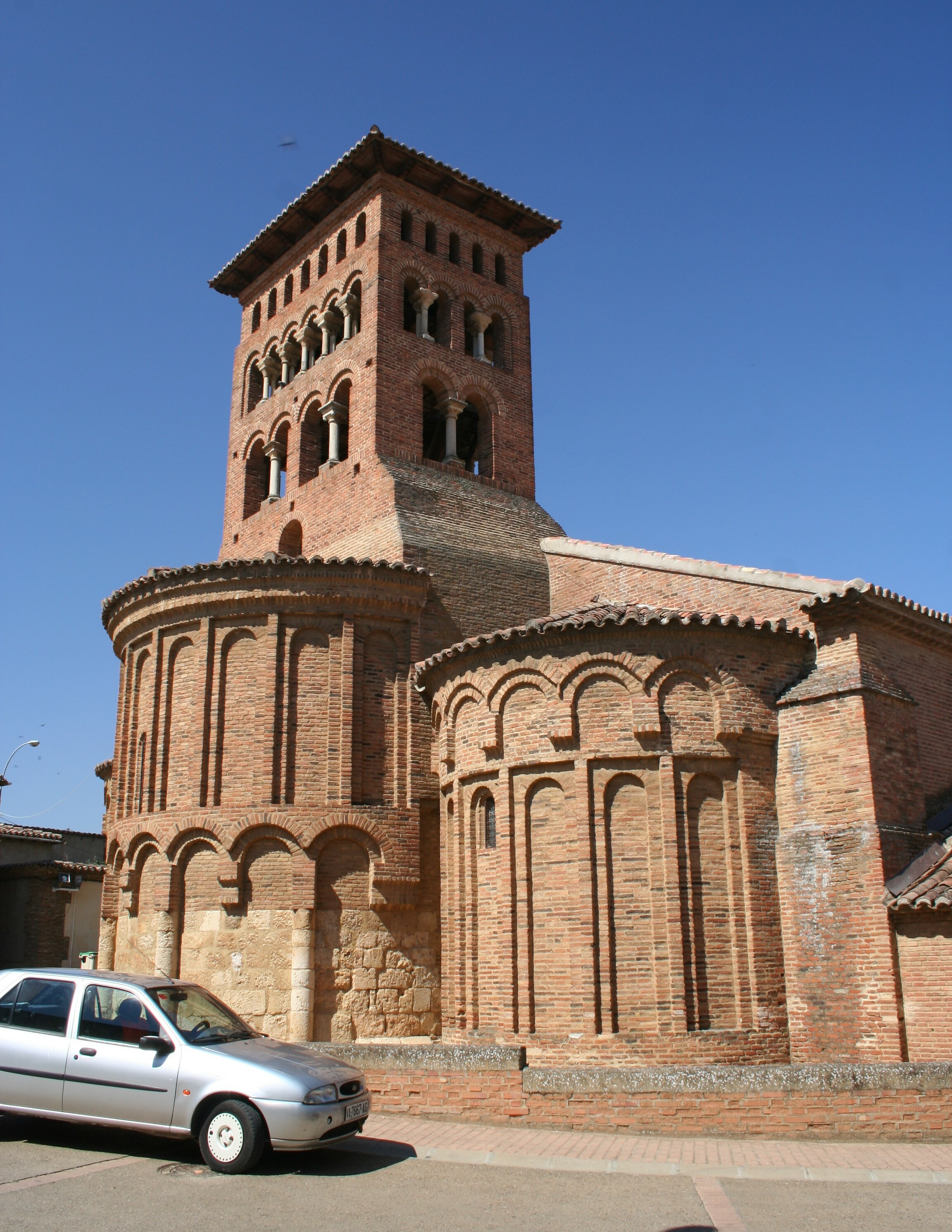 Church of San Tirso de Sahagún, Province of León, Spain. Mudéjar style.